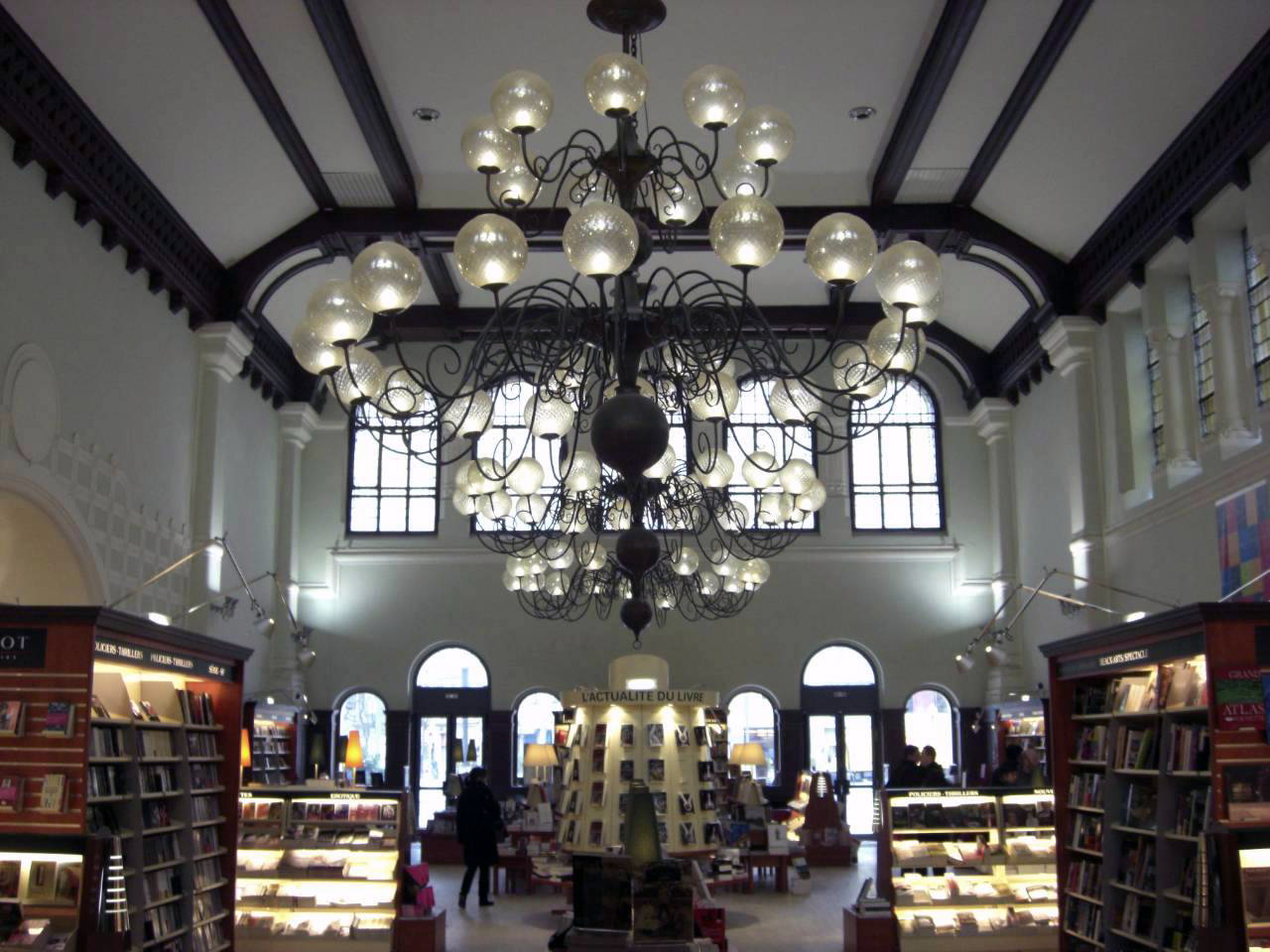 Interior of the buffet of Metz railway station, nowadays transformed into bookshop.